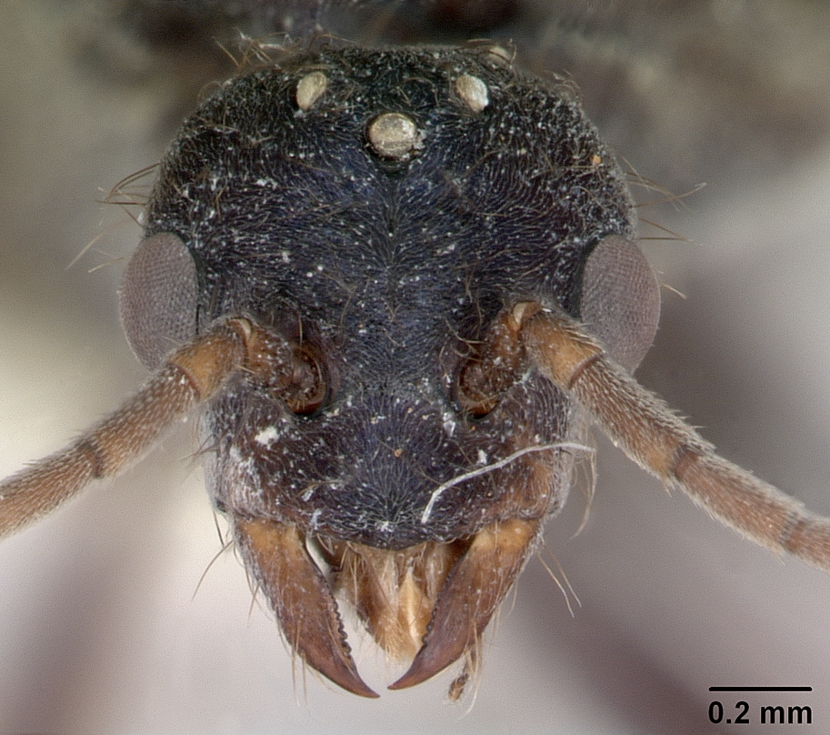 Head view of ant Melophorus anderseni specimen casent0173921.